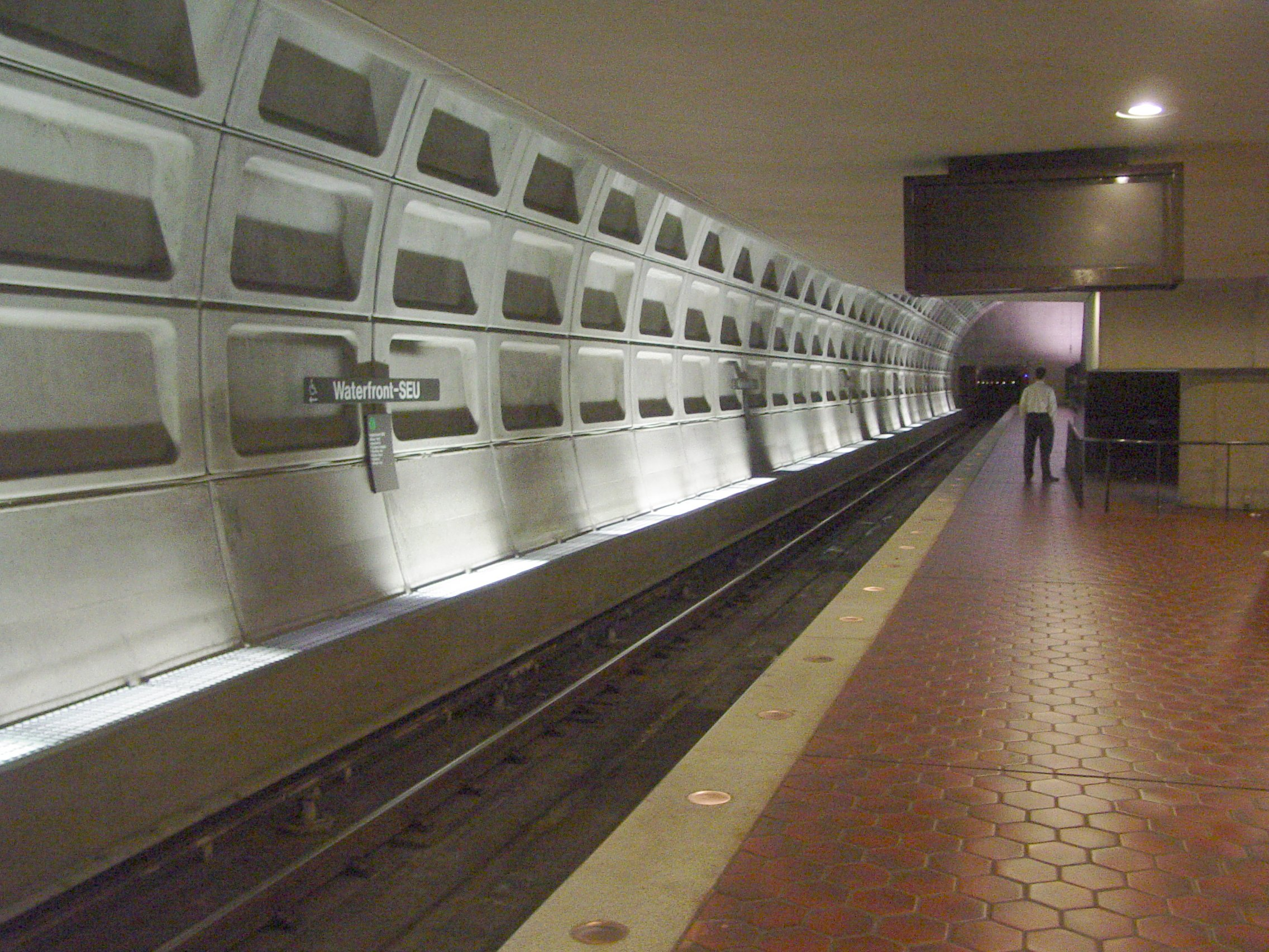 Outbound side of platform at the Waterfront-SEU Metro station in Washington DC.